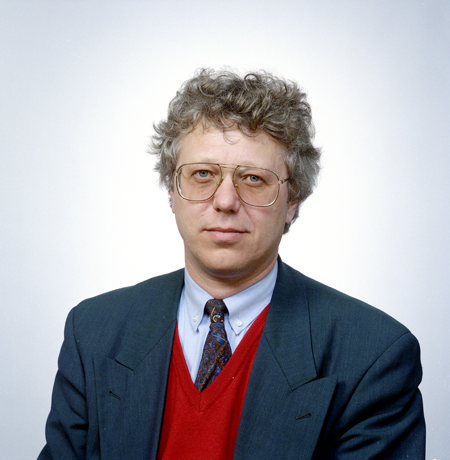 Peter d'Hamecourt